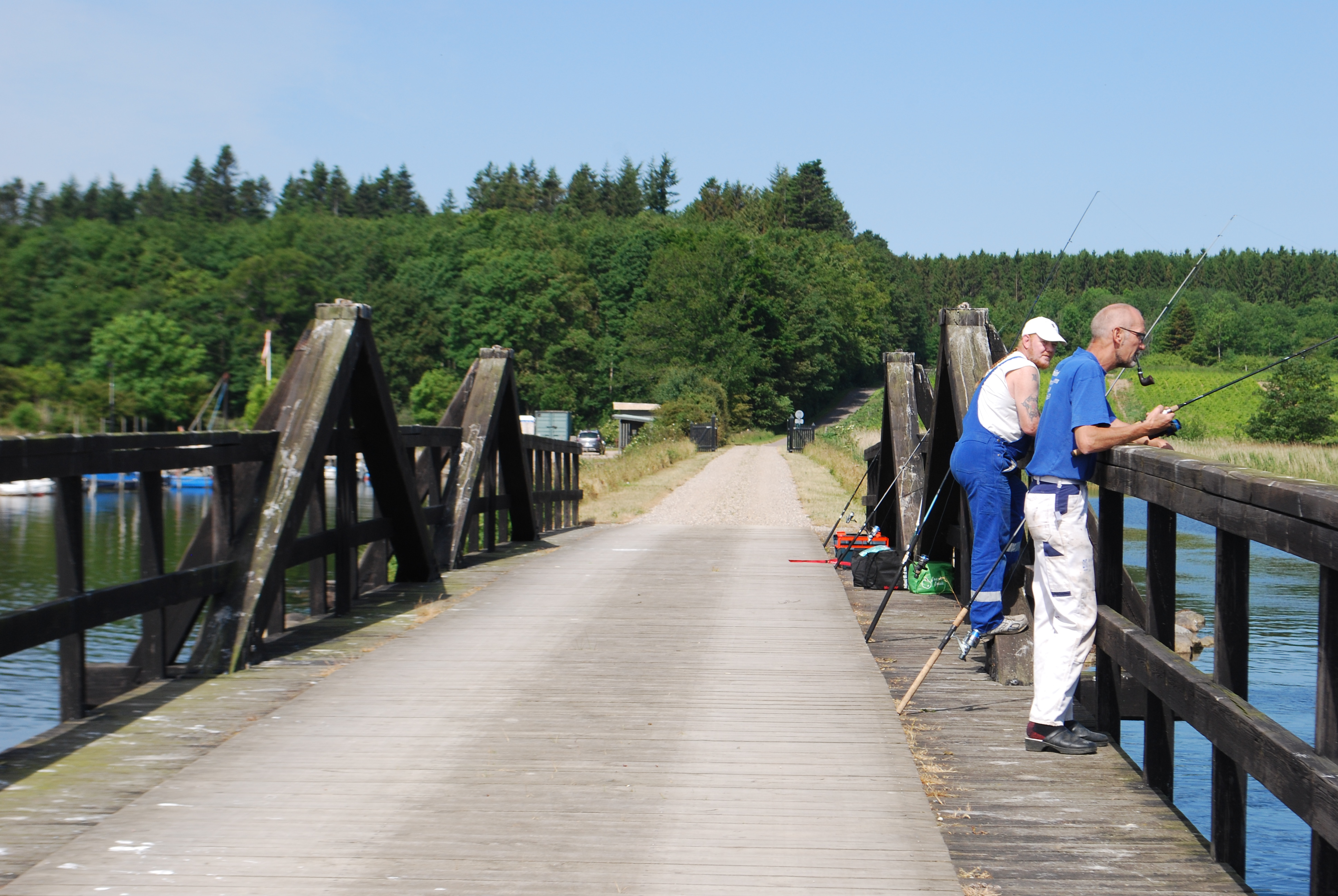 Langø, Ulvsund, Denmark